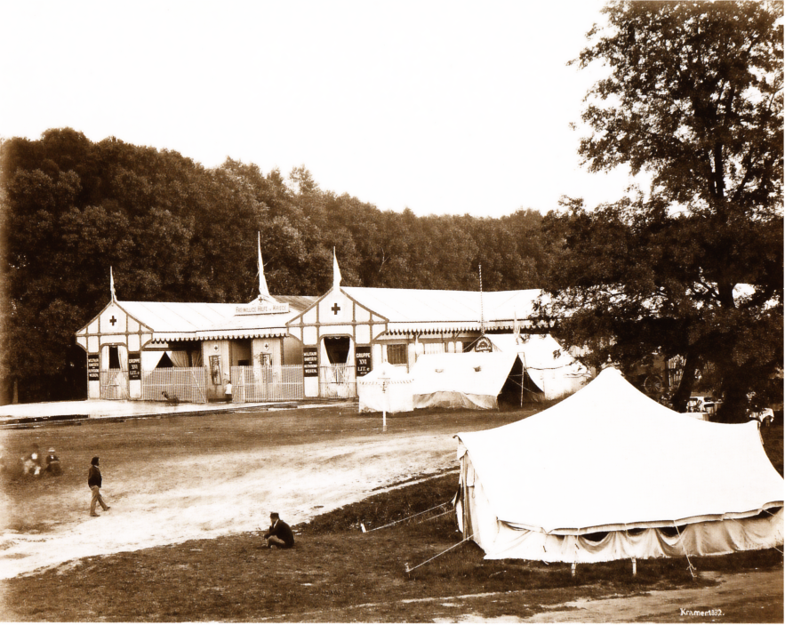 Outside view of the Pavilion of the Red Cross at the world's fair 1873